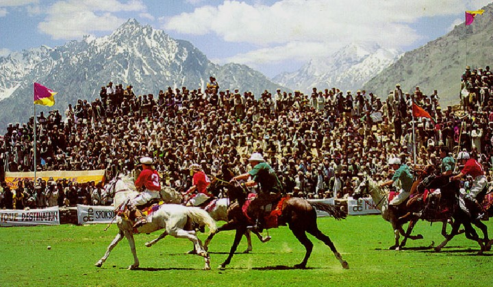 shandur polo festivals